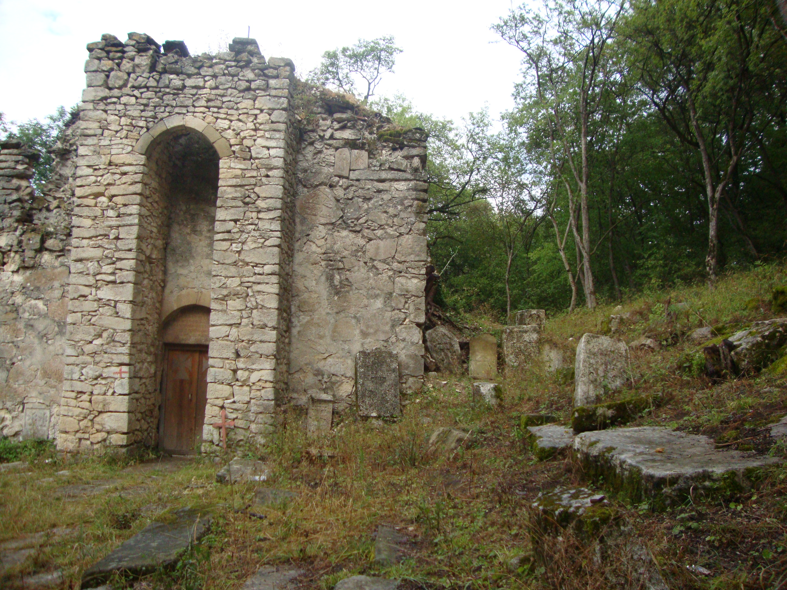 Ureq temple in Talish village, Agdam Rayon of Azerbaijan.